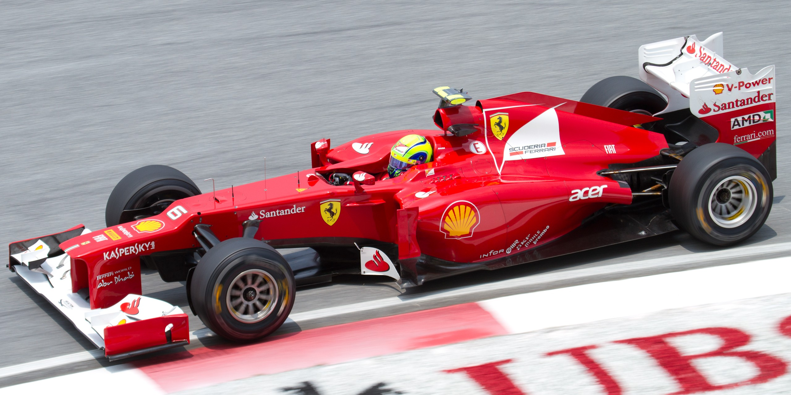 Formula One 2012 Rd.2 Malaysian GP: Felipe Massa (Ferrari) during the second practice session on Friday.